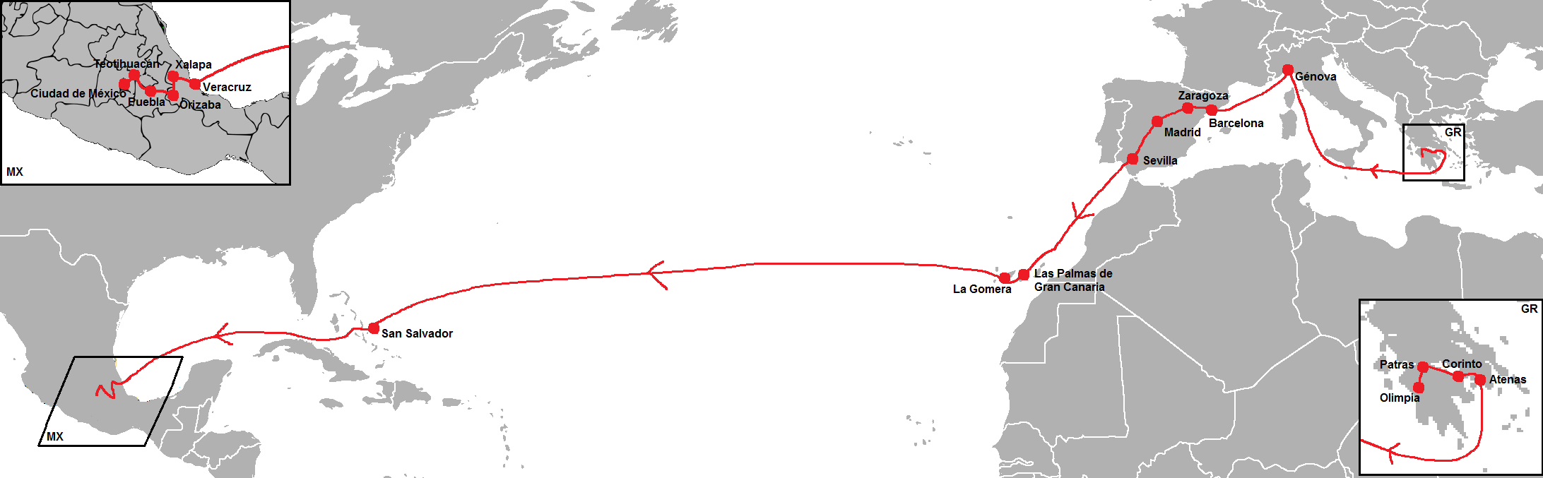 Route of the Olympic Torch for the Summer Olympic Games of 1968 in Mexico City